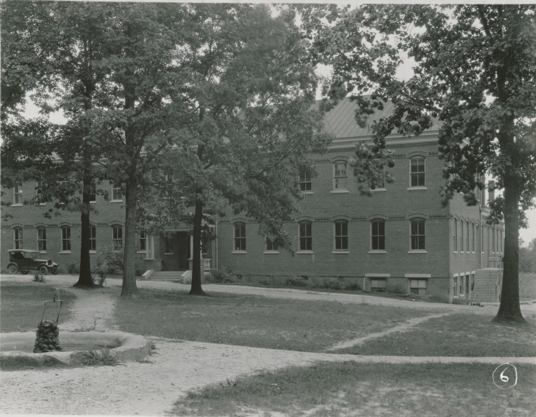 The Mechanical Building on the Campus of the Negro Agricultural and Technical College of North Carolina, now North Carolina Agricultural and Technical State University; 1926